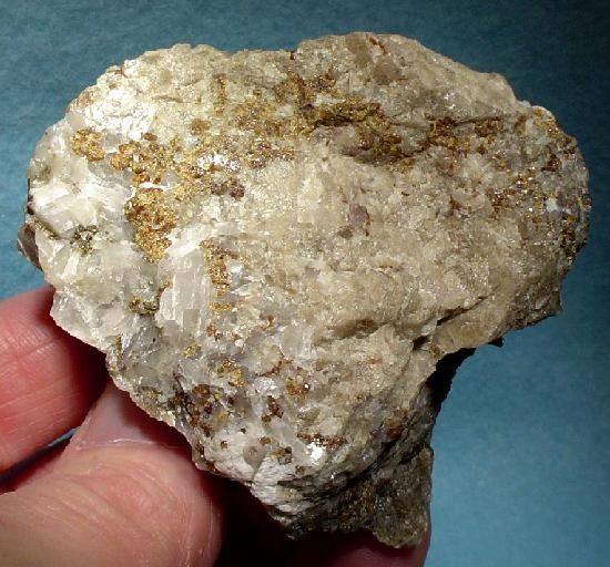 Hardystonite, Clinohedrite, Calcite, Willemite Locality: Franklin Mine, Franklin, Franklin Mining District, Sussex County, New Jersey, USA (Locality at ) Size: 7.0 x 6.0 x 3.2 cm. A CLASSIC, multi-fluorescent specimen with 4 minerals from the famous Franklin Mine containing: BLUE hardystonite (ultra-rare Type Locality); ORANGE clinohedrite (ultra-rare Type Locality); RED calcite; and GREEN willemite from the Parker Shaft. This specimen is particularly rich in hardystonite. Ex George Elling Collection, a noted Franklin/Sterling Hill collector.